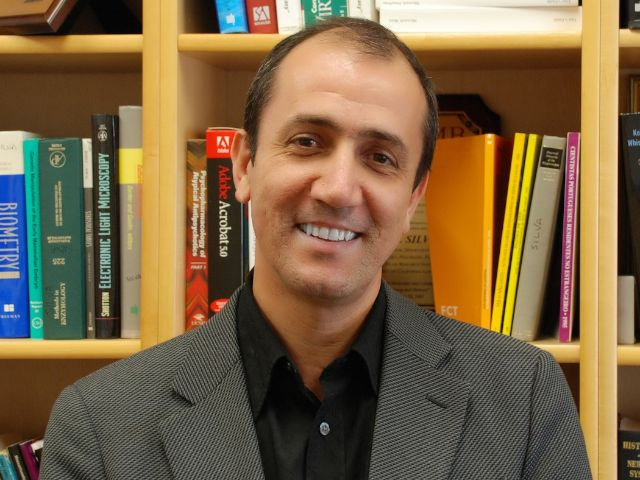 Alcino Silva in his office in 2008